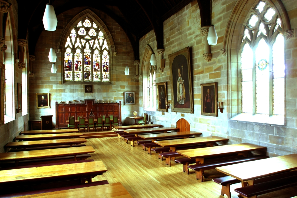 Great Hall (dining hall), St John's College, University of Sydney